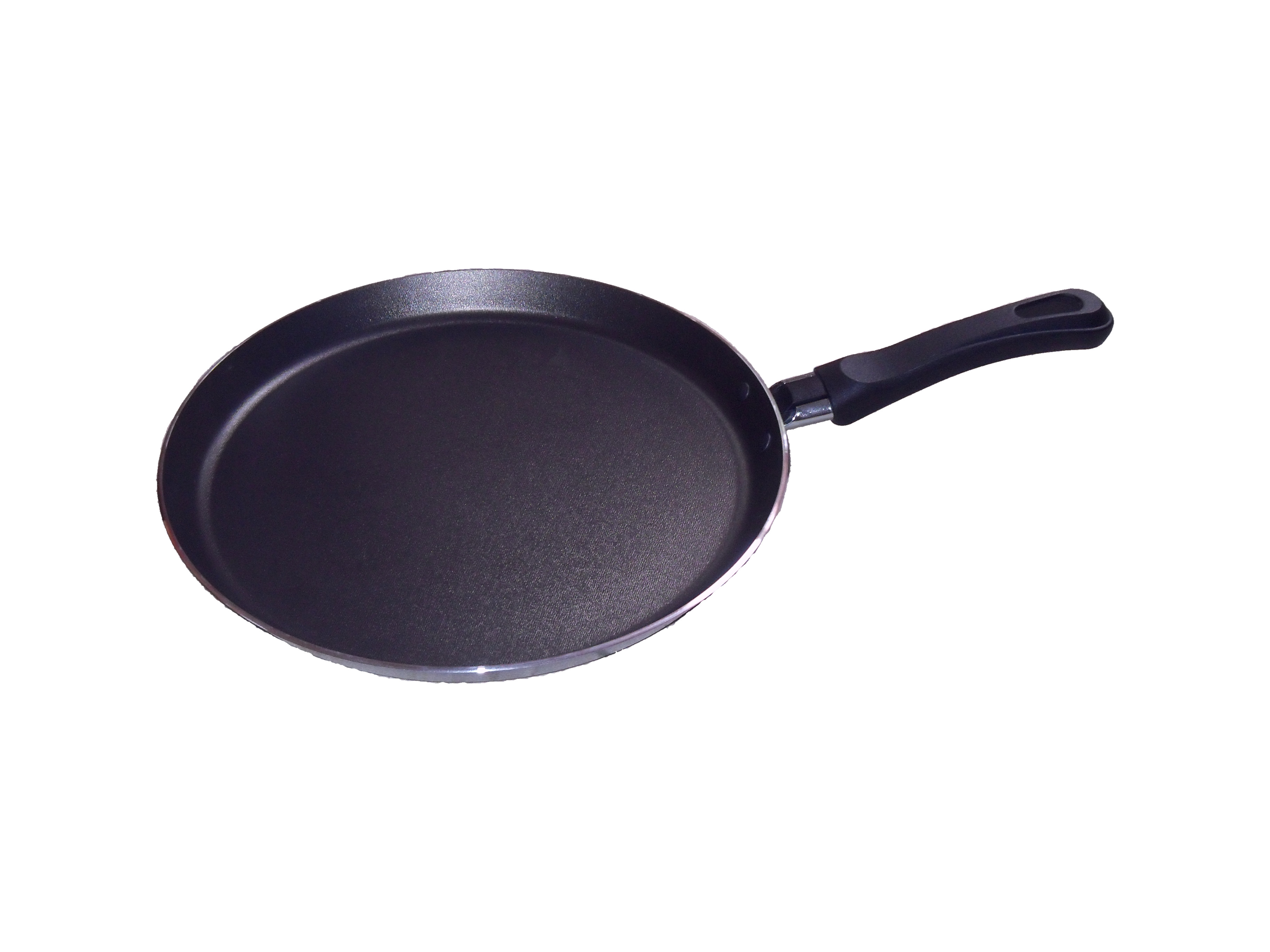 Pan specially designed for making crêpes